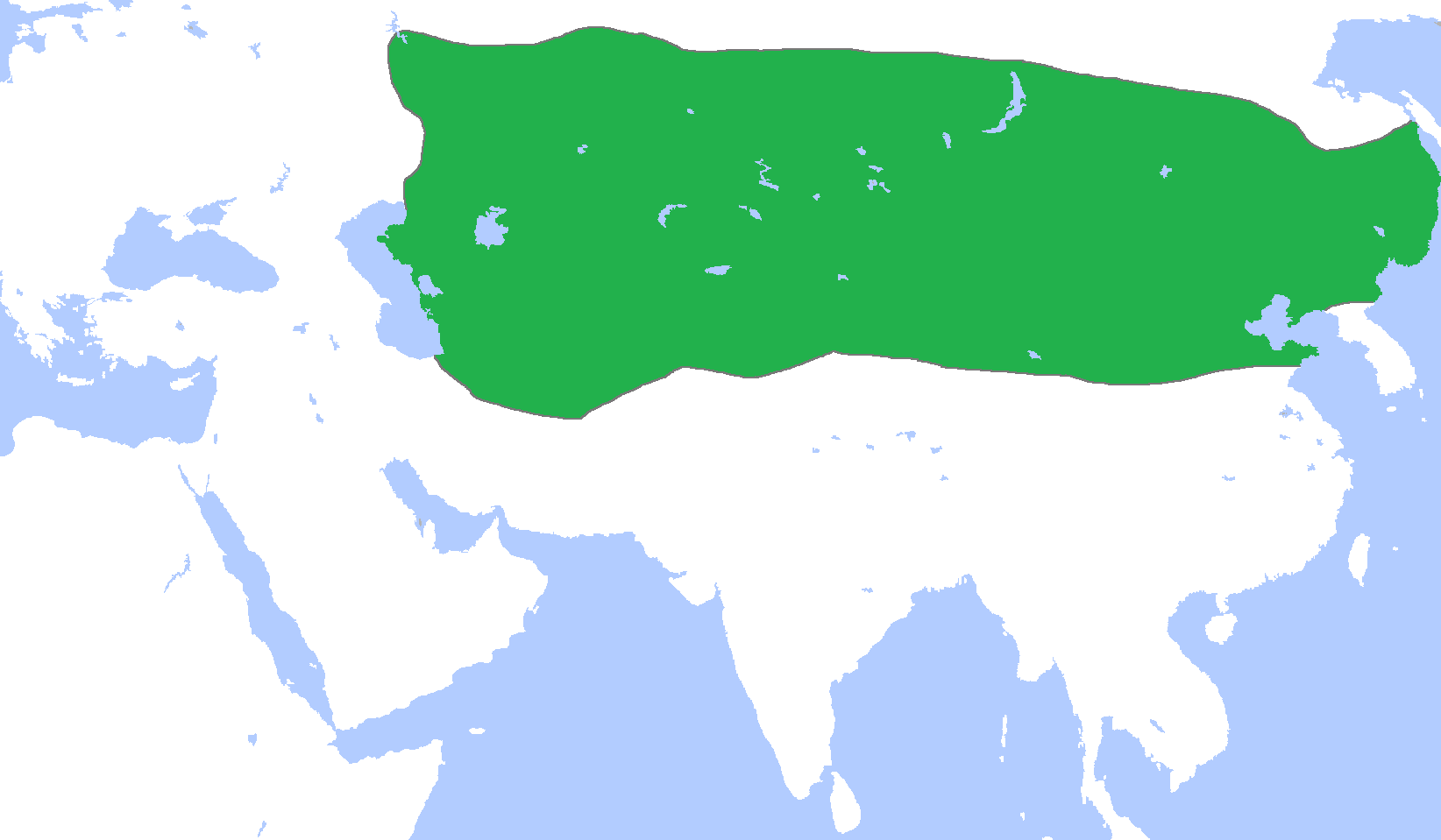 The Mongol Empire at the death of Genghis Khan, c. 1227. (Partially based on Atlas of World History (2007) - The World 1200-1300, map)